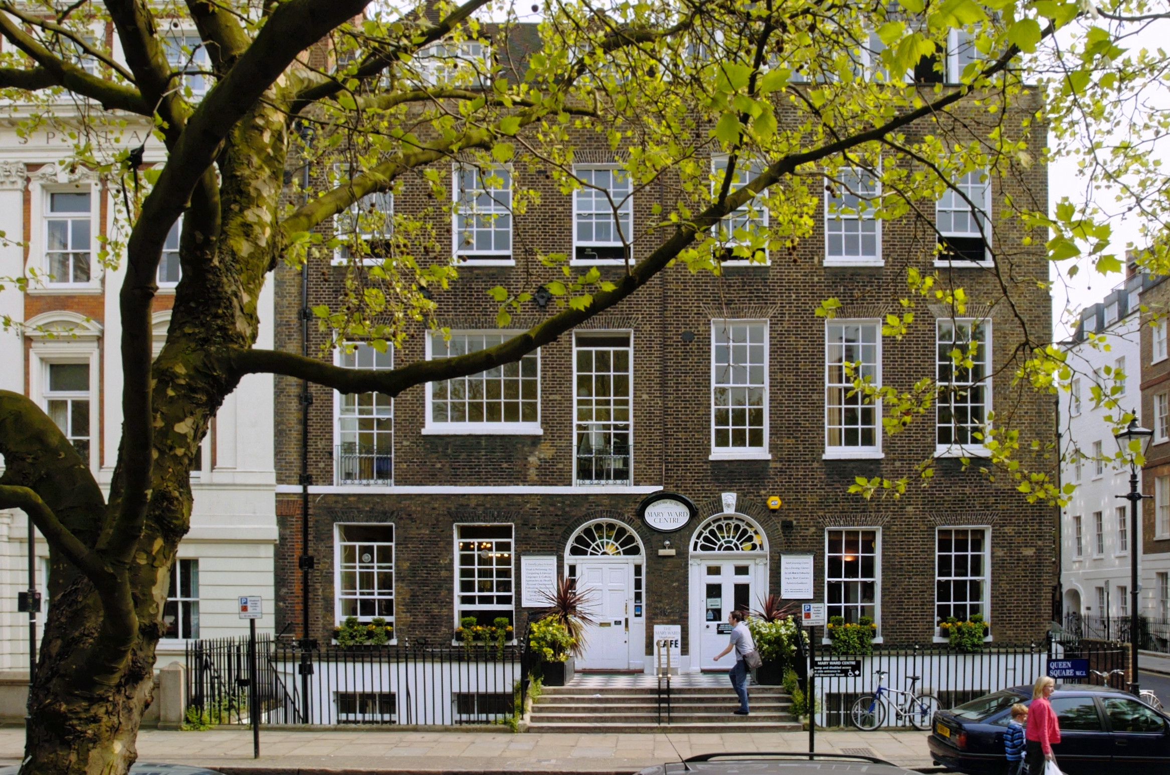 External shot of the Mary Ward Centre Adult Education College